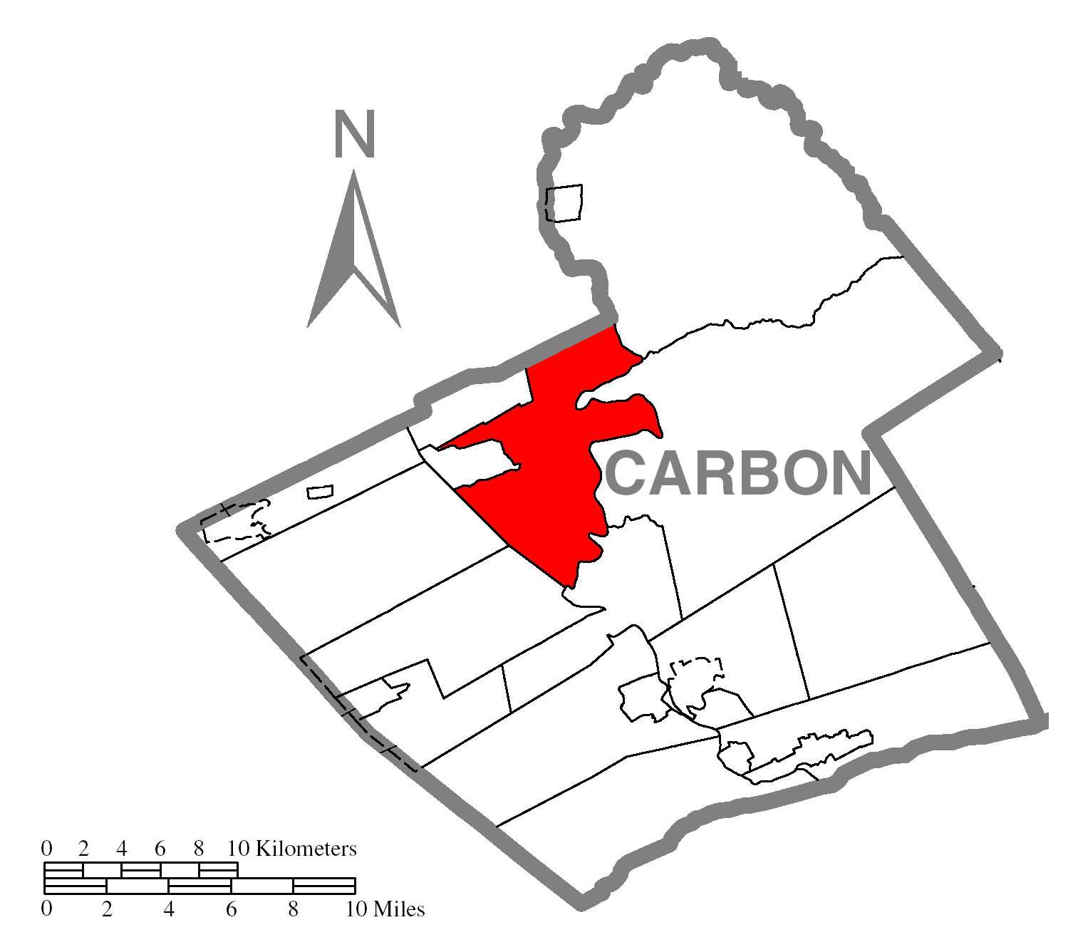 A map of Carbon County showing Lehigh Township, Pennsylvania (alternate) highlighted on the map.